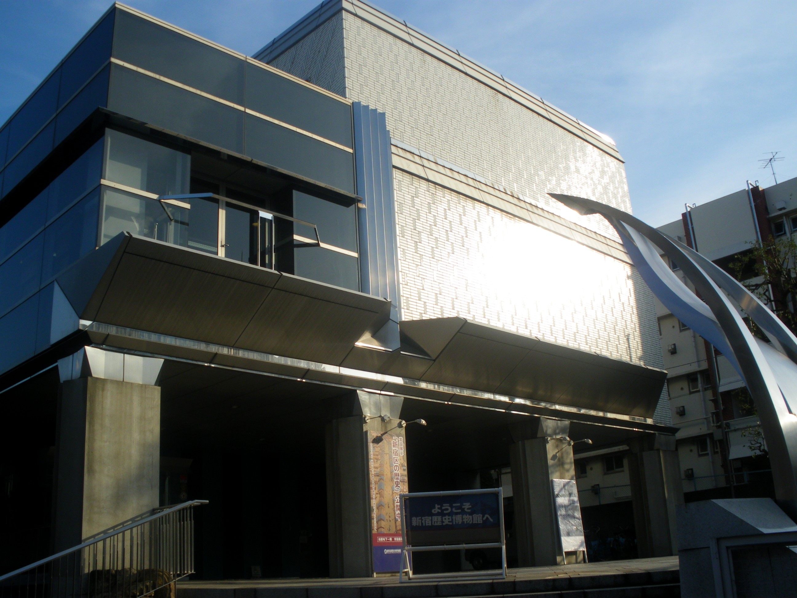 Shinjuku Historical Museum(Saneicho,Shinjuku,Tokyo)